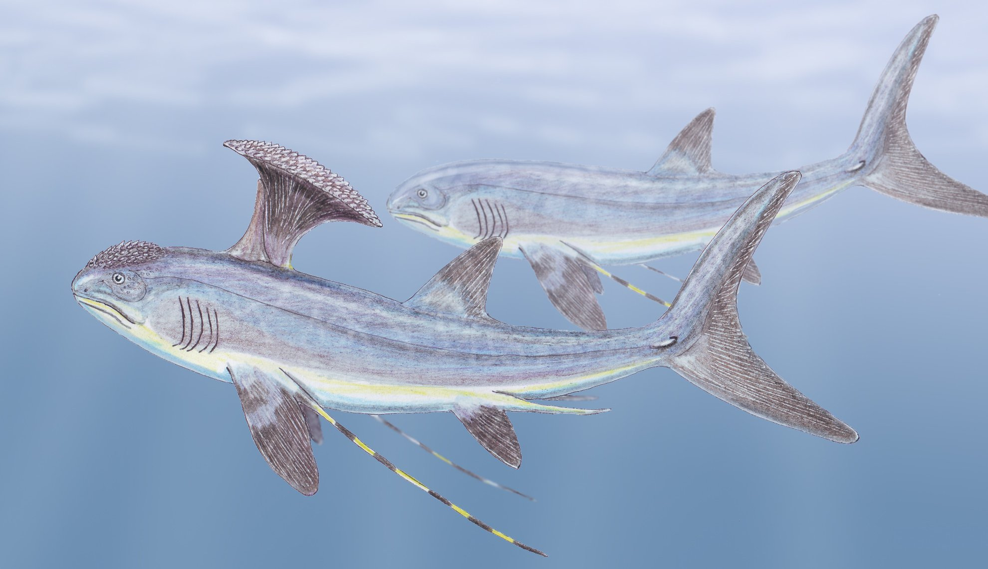 Crop of file in filename